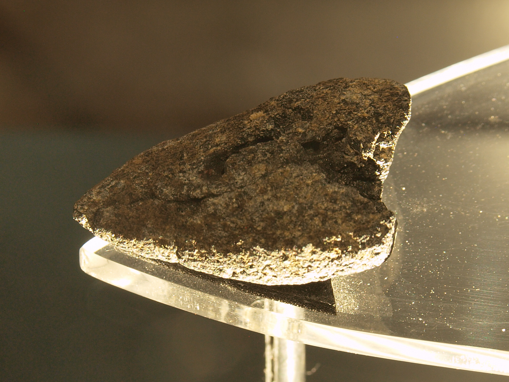 The remains of the Ovelgönne bread roll, Buxtehude, Landkreis Stade, Lower Saxony, Germany. Pre roman Iron Age, dating to 800-500 B.C. Remains of the oldest survived fine bread of Europe